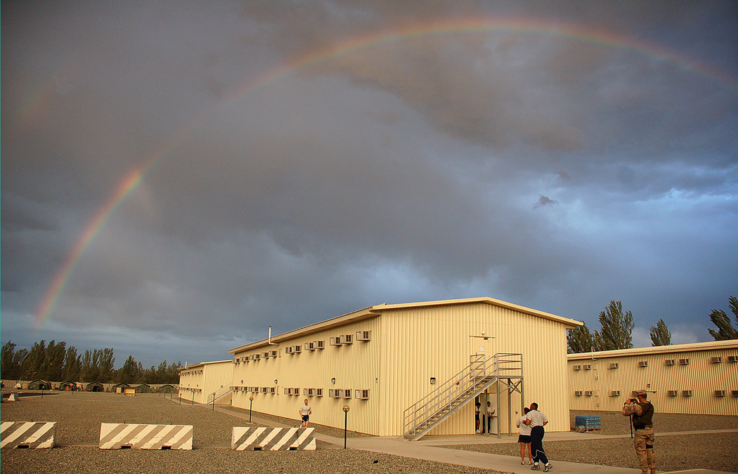 Liberandos were treated to a double rainbow during half-time of the intramural basketball game July 13.